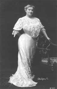 Postcard showing May Irwin in the Broadway production of Mrs Black is Back (1904), May Irwin, public domain